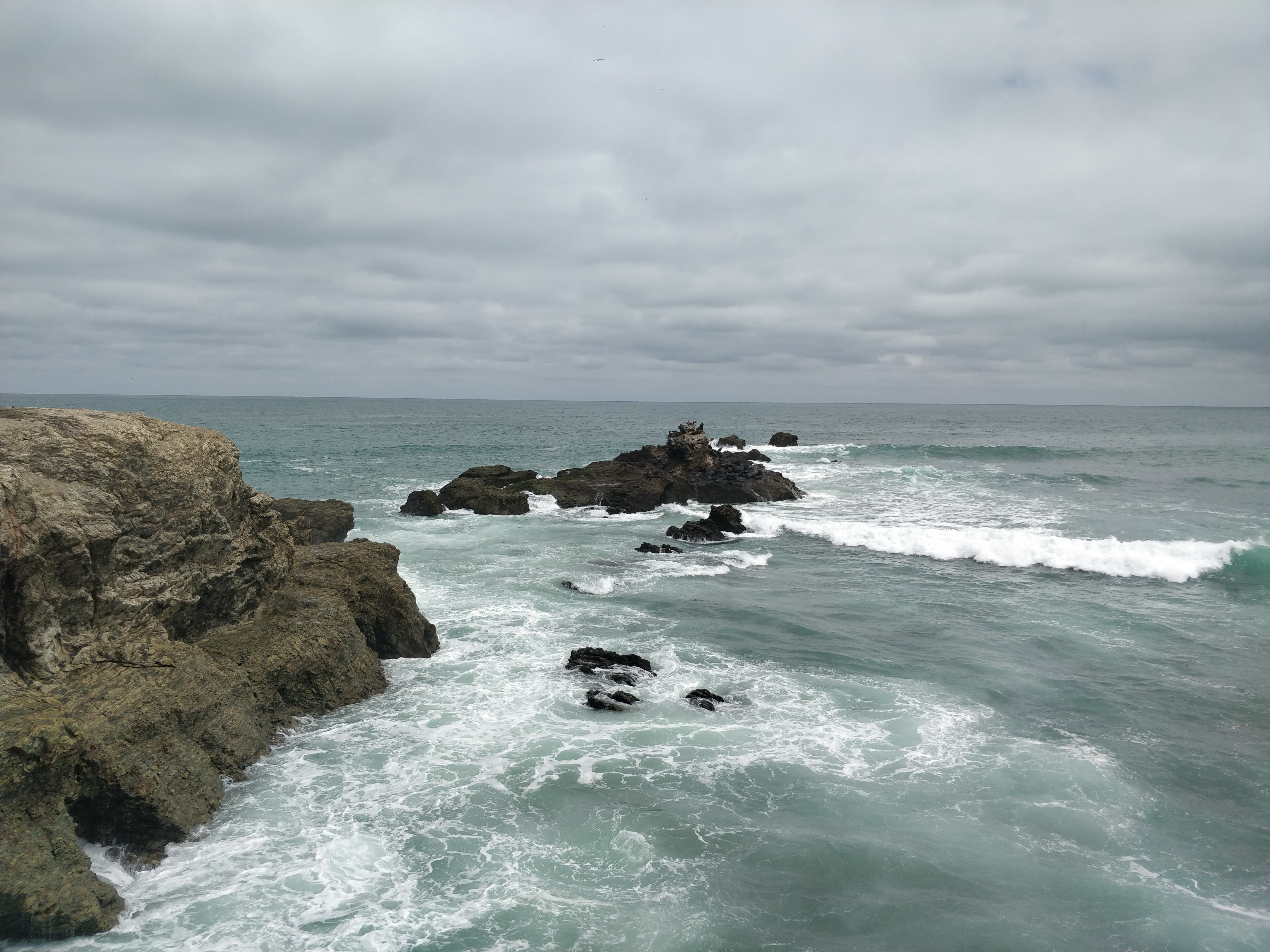 La Chocolatera in the summer of 2018. This photo contains sea lions.